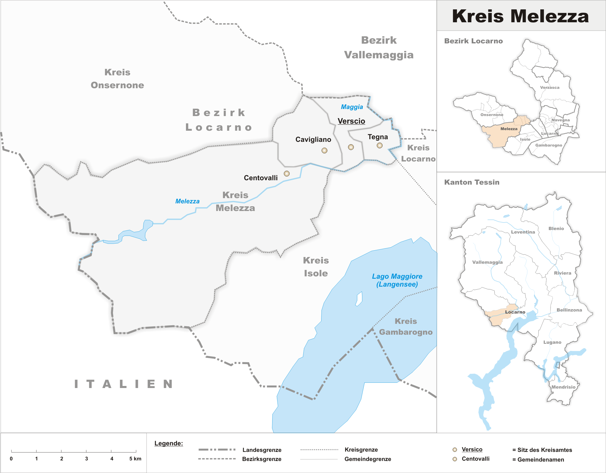 Municipalities in the circle of Melezza